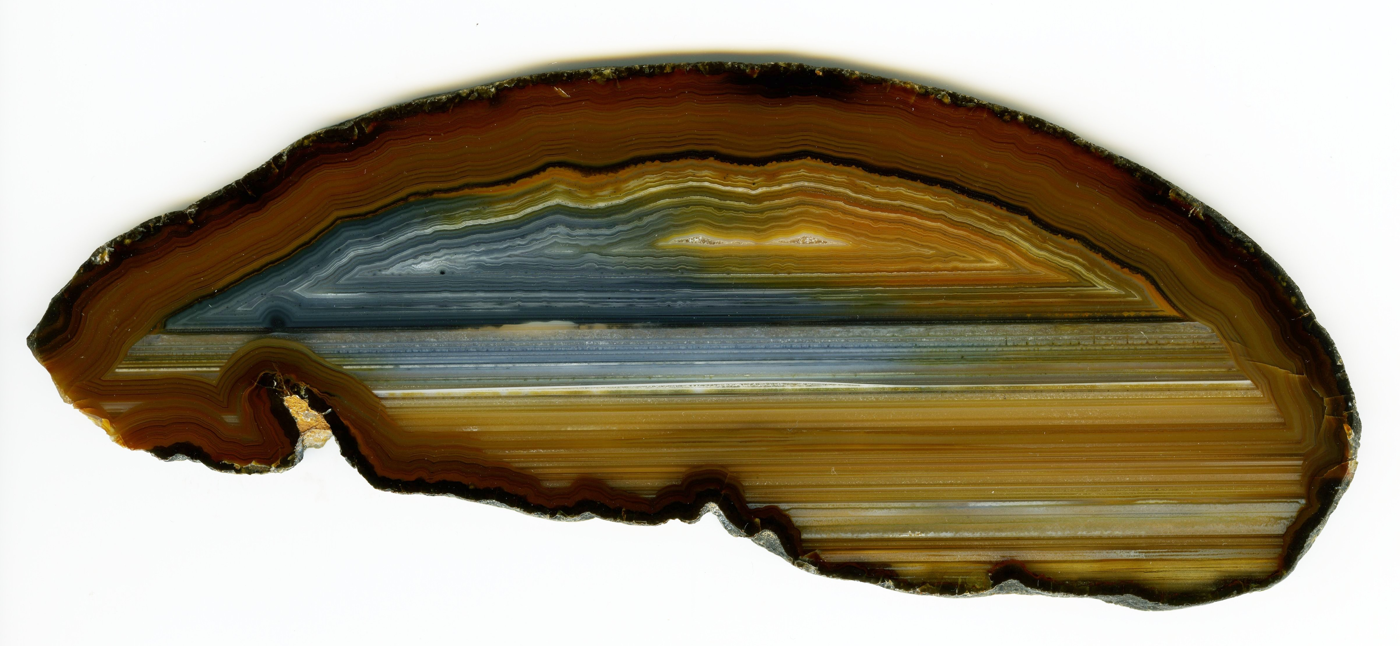 Agat